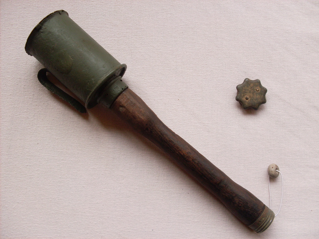 Original Stielhandgranate 1917 (Rope is not original)